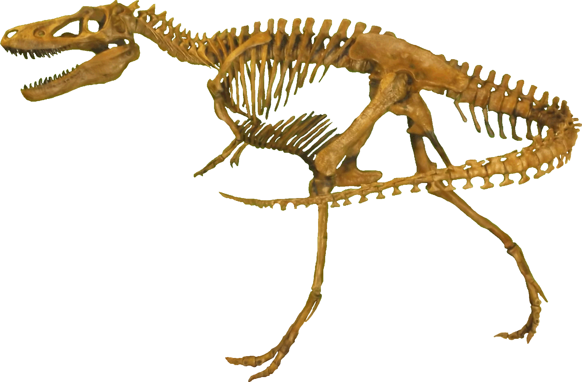 Cast skeleton of Nanotyrannus lancensis in the Rocky Mountain Dinosaur Resource Center